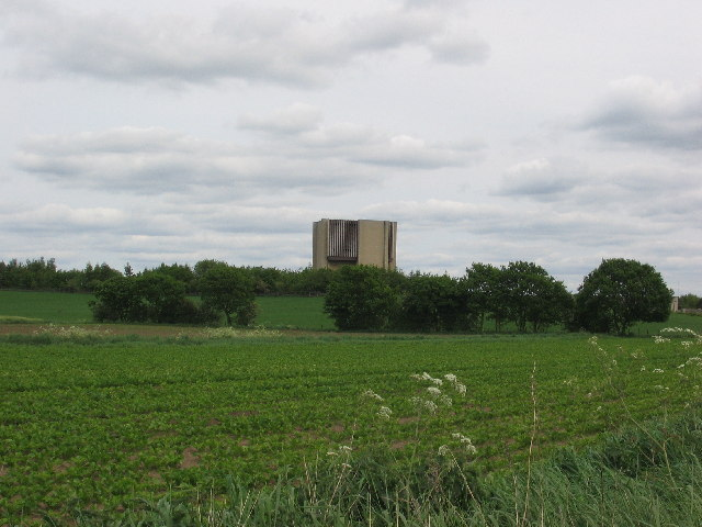 Wistow Coal Mine. Wistow Mine now closed!